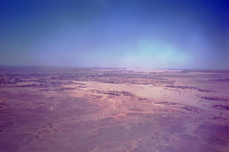 Aerial photo of Tamanrasset taken by Dairyflat in 2002. Picture taken from the top of the mountain Hadrian.